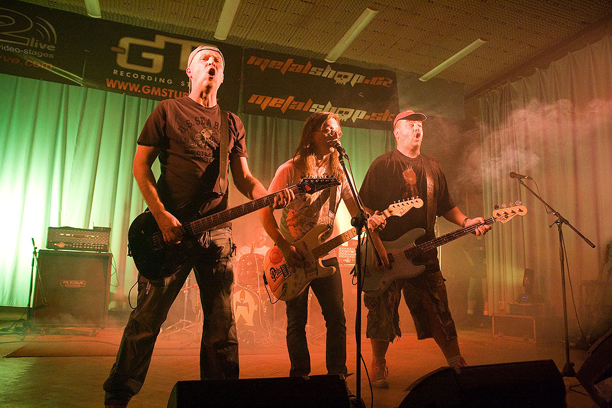 Alkehol 4. 11. 2010 in the Barrocko club (EU - Czech Republic - Třinec).